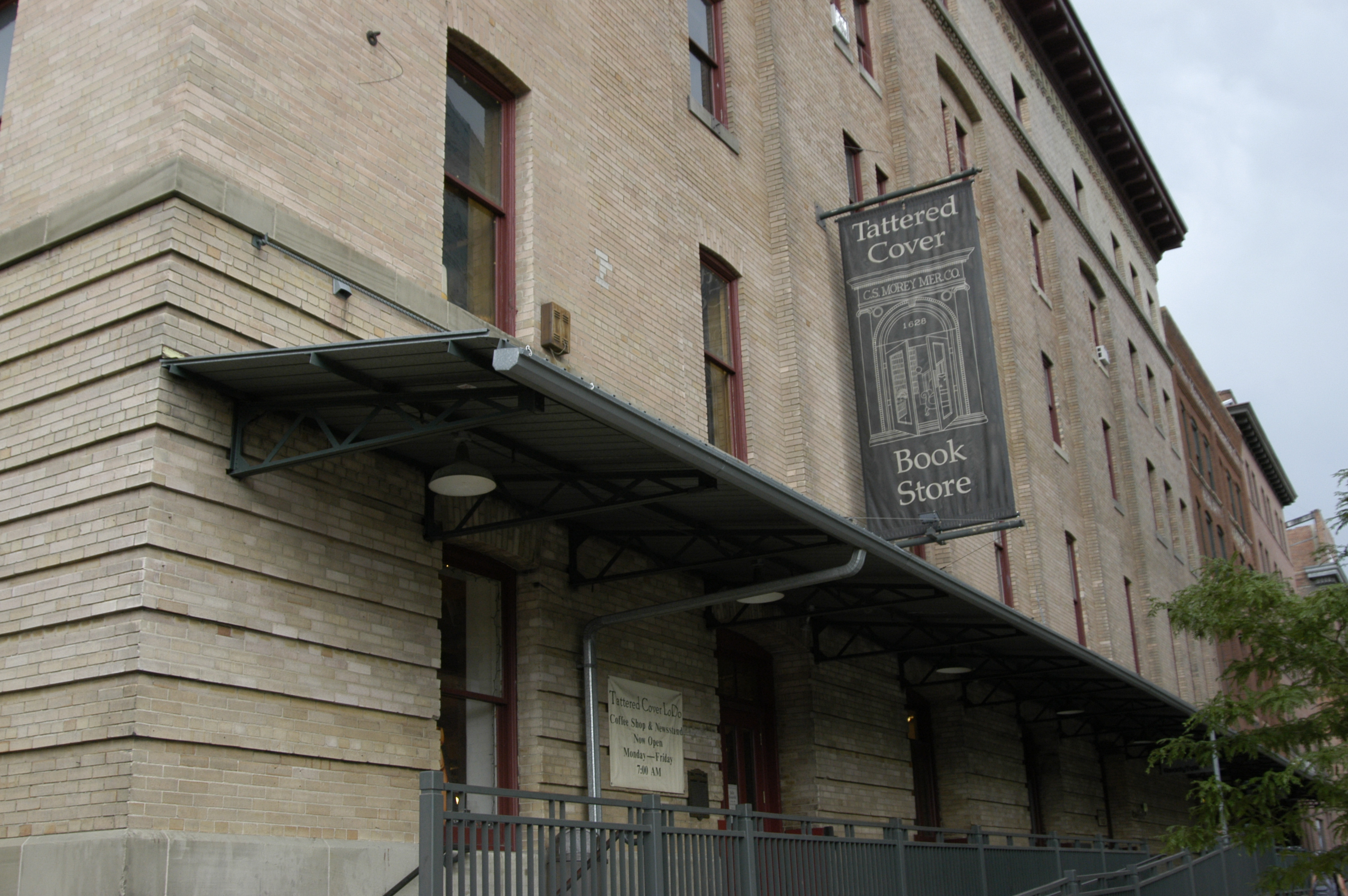 The Tattered Cover book store, on 16th St. Mall in Denver.